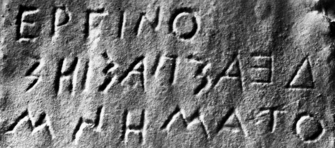 Boustrophedon inscription from Apollonia, 6th c. B.C.